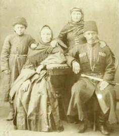 Daghestan. A Kumik family.